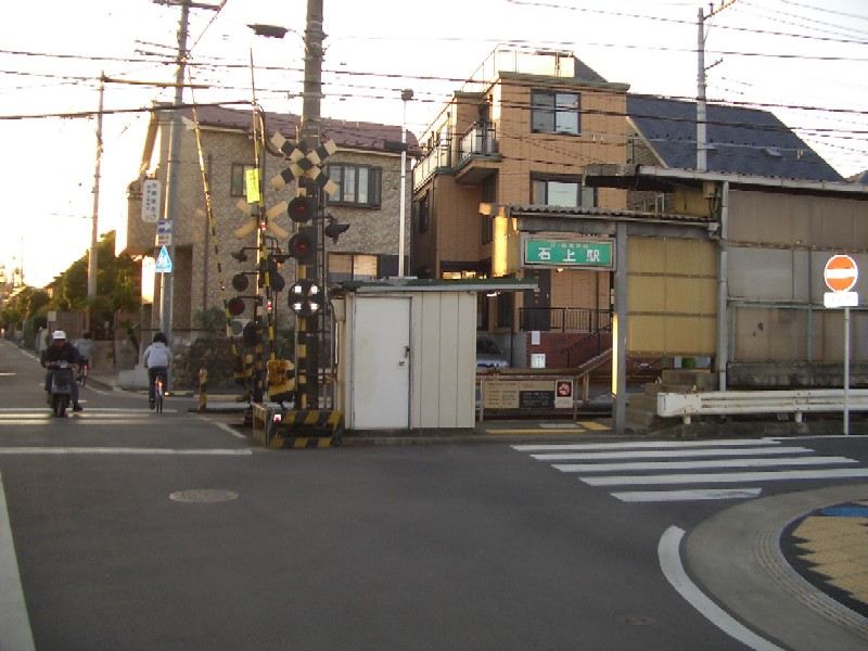 Front side of Ishigami Station